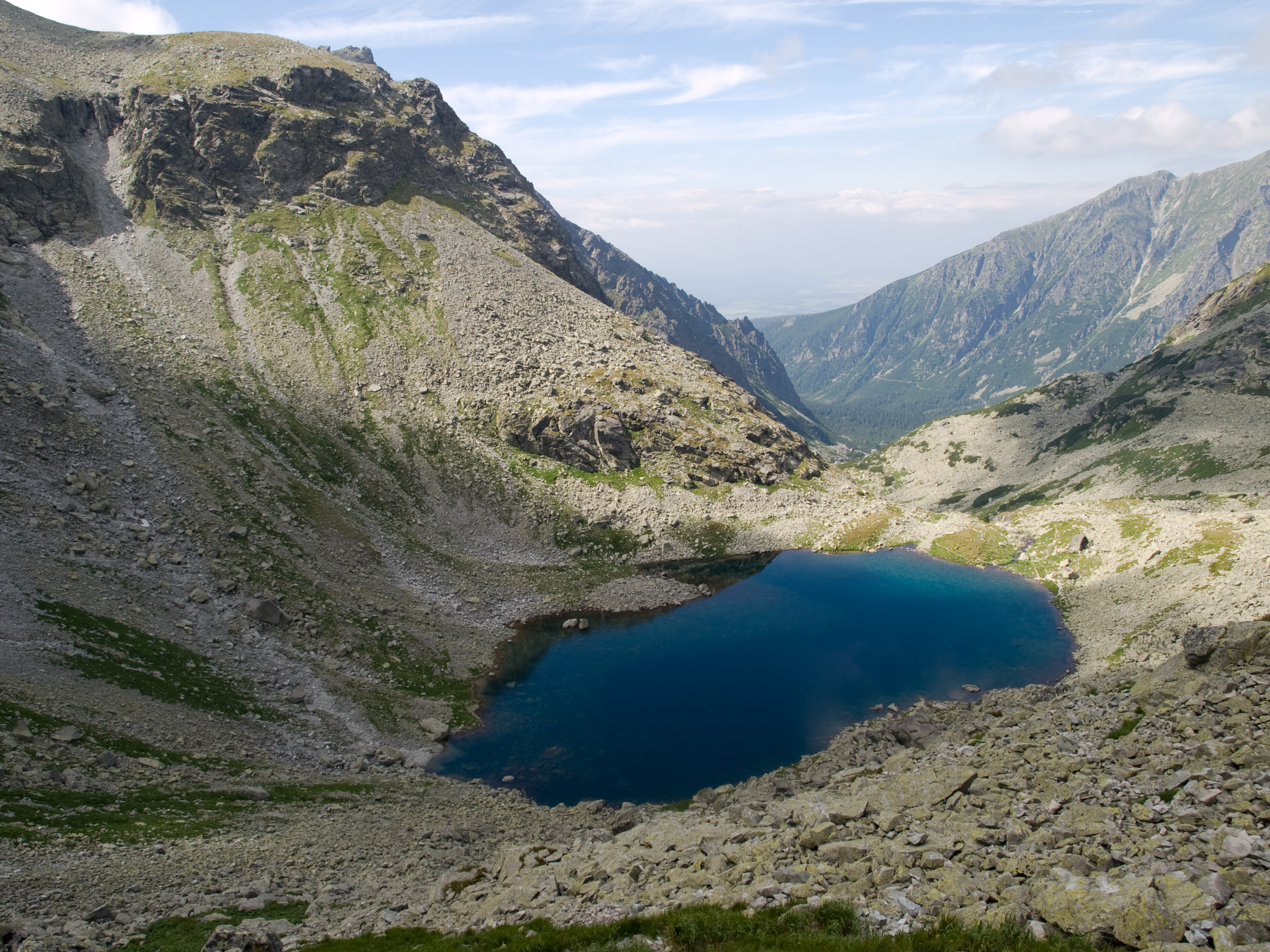 Ľadové pleso in Zlomisková dolina